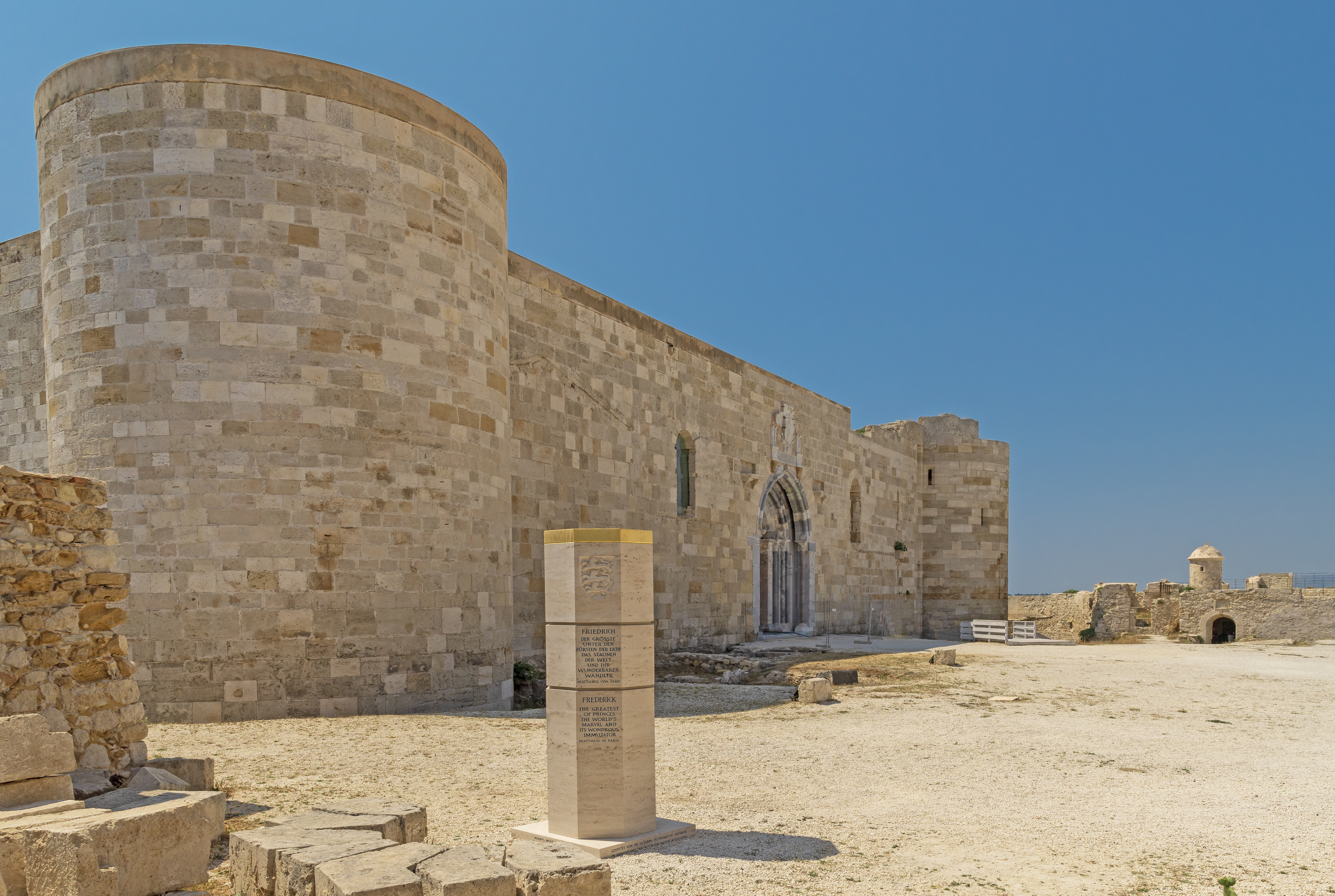 The Castello Maniace inside the fortress in Syracuse